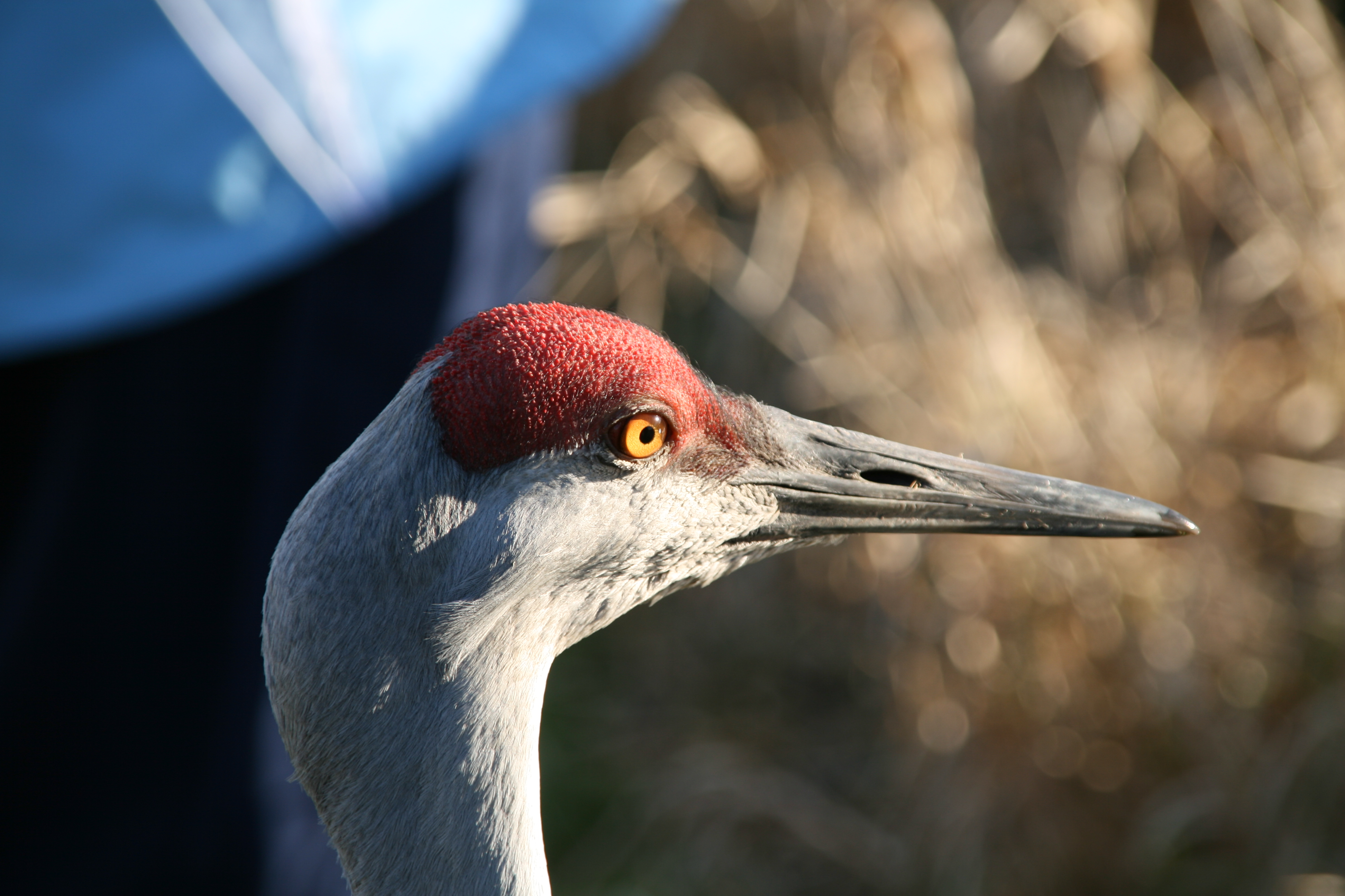 I took this close-up of a Lesser Sandhill Crane's head at the George C. Reifel Migratory Bird Sanctuary in Ladner, BC. The bluish thing in the background is a woman who told me a bit more about Sandhill Cranes.